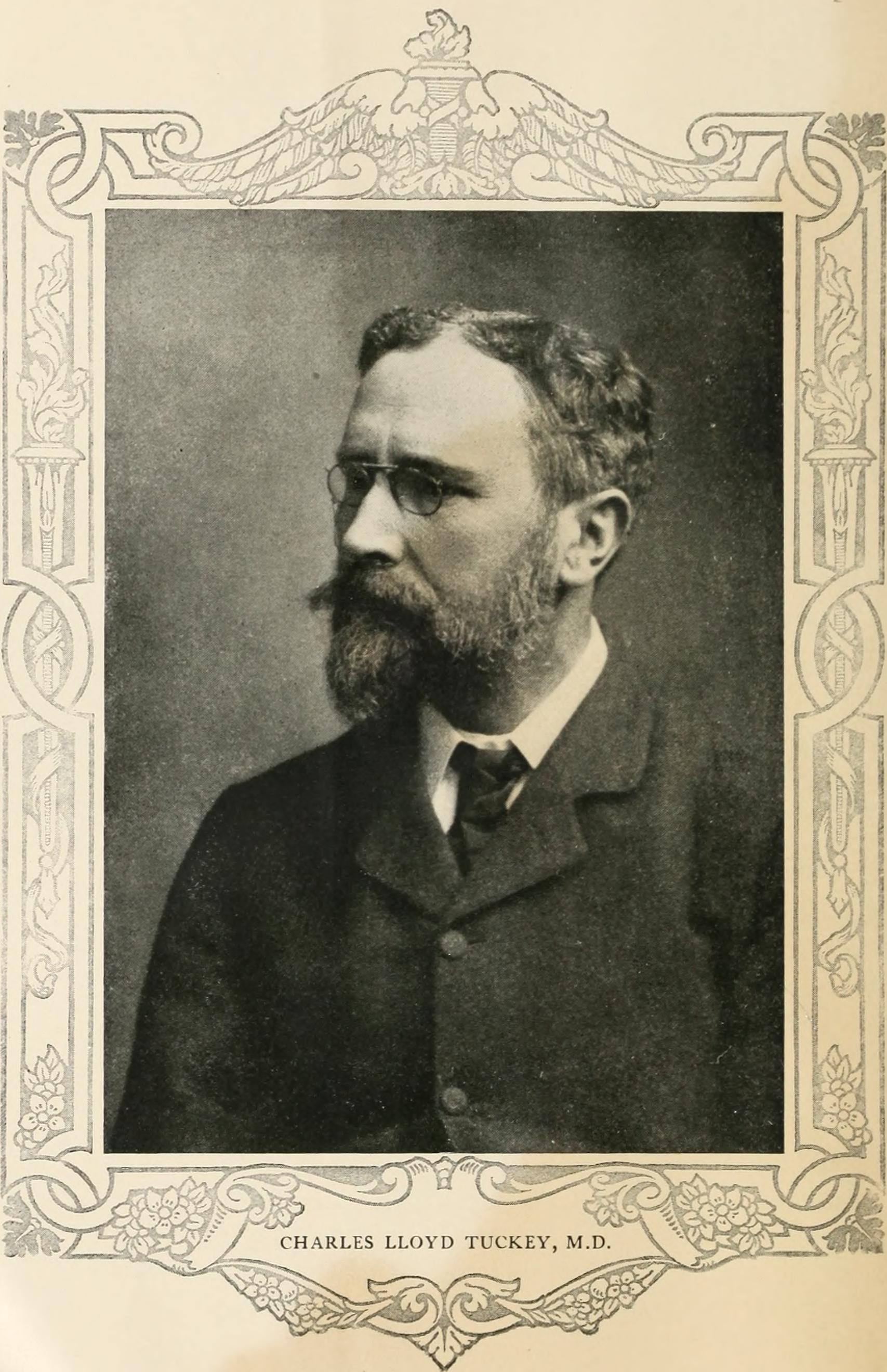 Charles Lloyd Tuckey, M.D., hypnotism specialist Title: Psychotherapy; a course of reading in sound psychology, sound medicine and sound religion. Year: 1909 (1900s) Authors: Parker, William Belmont, 1871-1934, editor Subjects: Mental healing Mental health Psychotherapy Mental Healing Mental Health Psychotherapy Publisher: New York : Centre Pub. Co Text Appearing Before Image: ty on the subject, his book, Psycho-Therapeutics, being one of the mostvalued works in the field. His defense of hypnotism, therefore, to whichhe devotes a considerable part of his paper, demands consideration. Inthe first place, whatever may be the final decision as to the value of hypno-tism, it must be borne in mind that practically all forms of psychotherapeuticsuggestion have their origin in hypnotism, just as in its turn hypnotism hadits origin in mesmerism. Dr. Tuckey very naturally begins his article with an account of theclinic of Liebeault, the first great practitioner of hypnotic suggestion inEurope. This visit led Dr. Tuckey to further study and practice of hyp-notism and the various forms of treatment by suggestion, which he describesand analyzes with great acuteness. In the discussion of hypnotism which is going on and which has al-ready divided psychotherapists into two camps—the school of Nancy and the school of Berne —Dr. Tuckeys presentation is of high value. (4) Text Appearing After Image: '